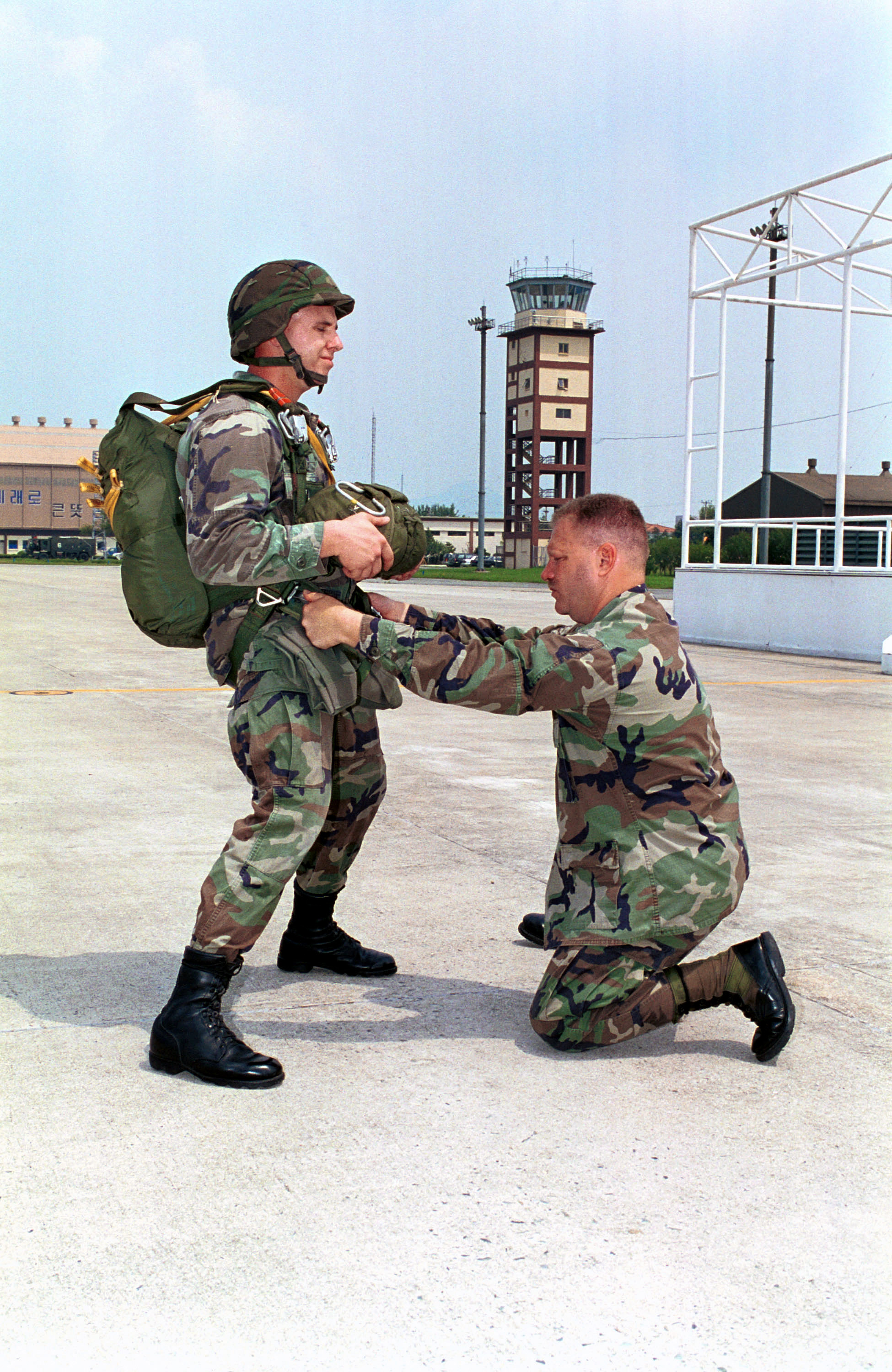 Sergeant Stephen Fogarty, a Jumpmaster from the 4th Quartermaster (Airborne) Detachment, Camp Hialeah, inspects the parachute rigging on Specialist First Class Charles Miracle, a rigger assigned to the 4th Quartermaster (Airborne) Detachment, Camp Hialeah (Released to Public). Note: The rank noted is "Specialist First Class", there is no such rank in the U.S. Army--the author of the photograph probably meant Specialist or Private First Class and made an error.